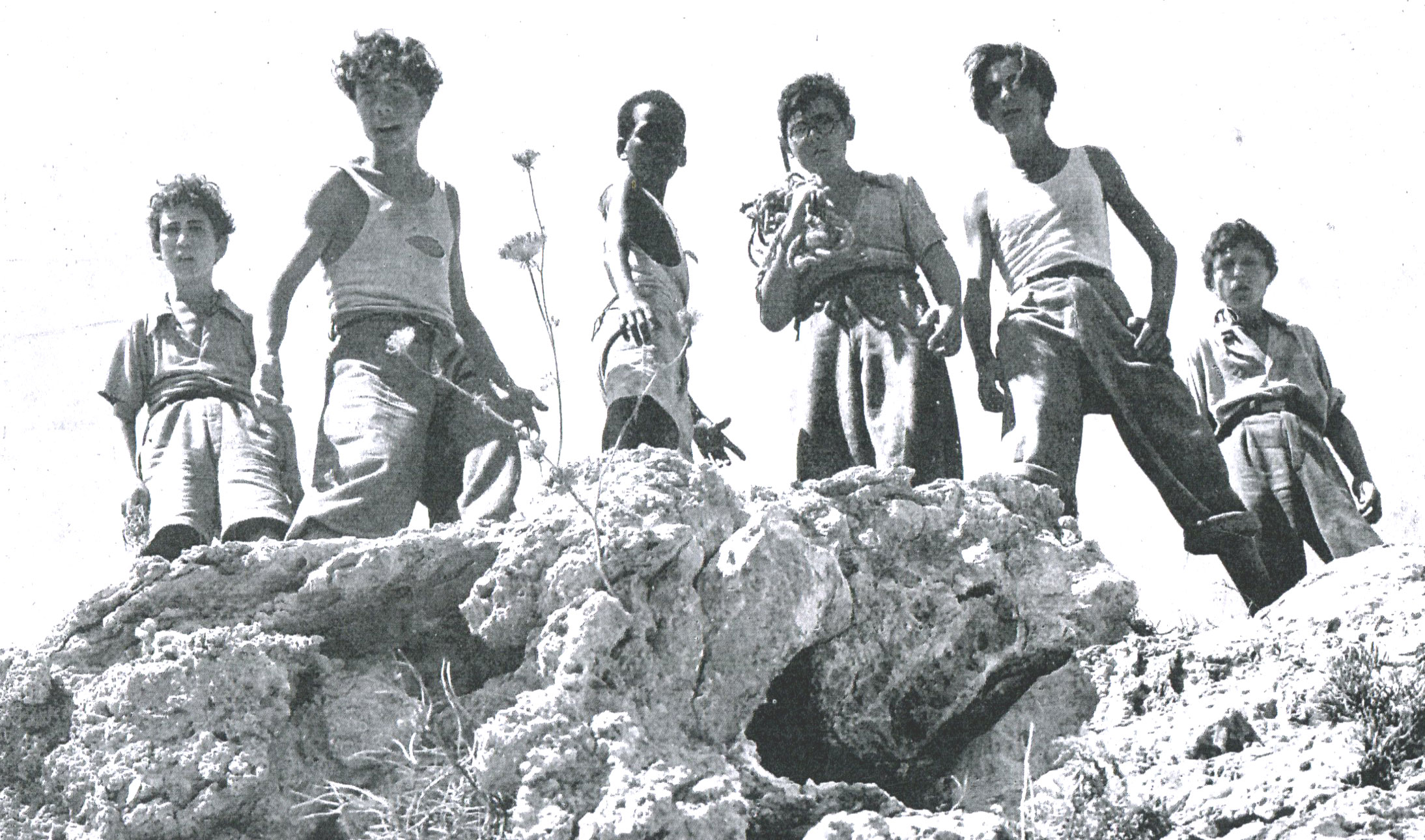 piccoli naufraghi Calzavara 1938 - foto scena ragazzi